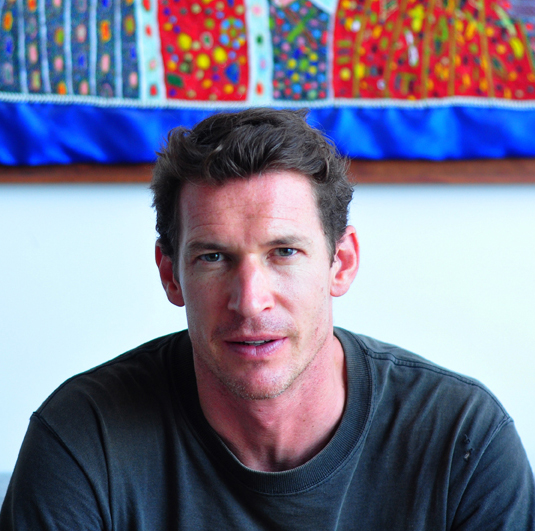 Tim Hetherington in Brooklyn, New York in July 2010.